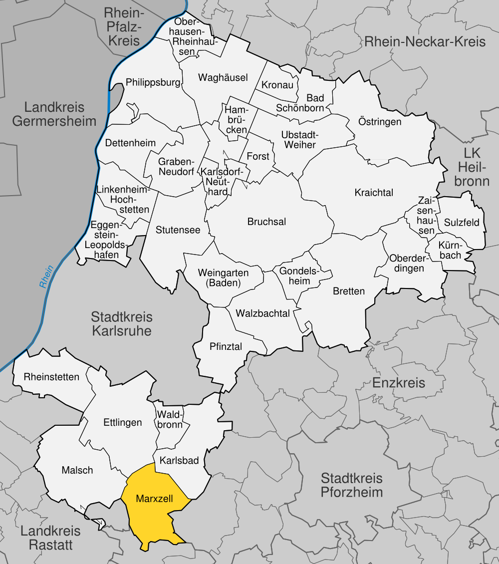 position of Marxzell within distict of Karlsruhe, Baden-Württemberg, Germany